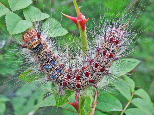 Larva of MAIMAIGA